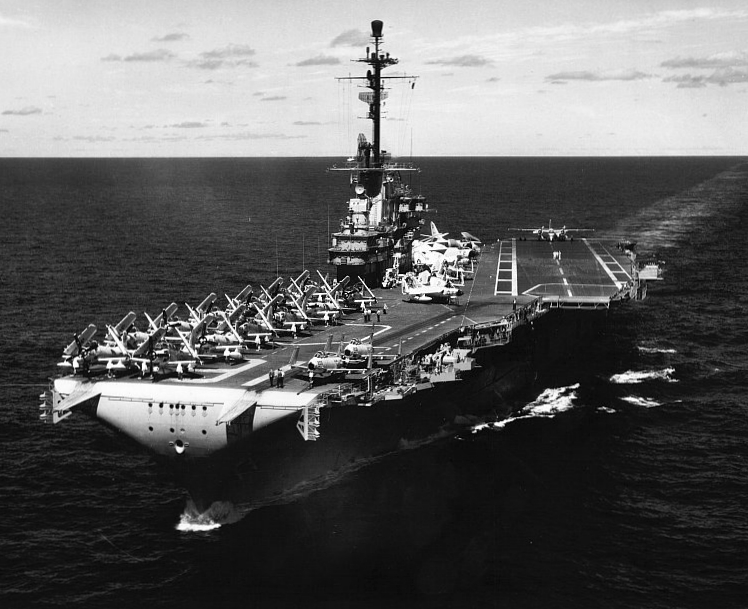 The U.S. Navy aircraft carrier USS Lexington (CVA-16) underway in the Western Pacific, with Carrier Air Group 21 (CVG-21), on 16 August 1958. Just eight days later, on 24 August, Communist Chinese artillery began shelling the Nationalist Chinese islands of Quemoy and Matsu, prompting the Blue Ghost´s (as Lexington was called) deployment to the Taiwan Straits at various times during the next four months, along with other units of the U.S. Seventh Fleet.